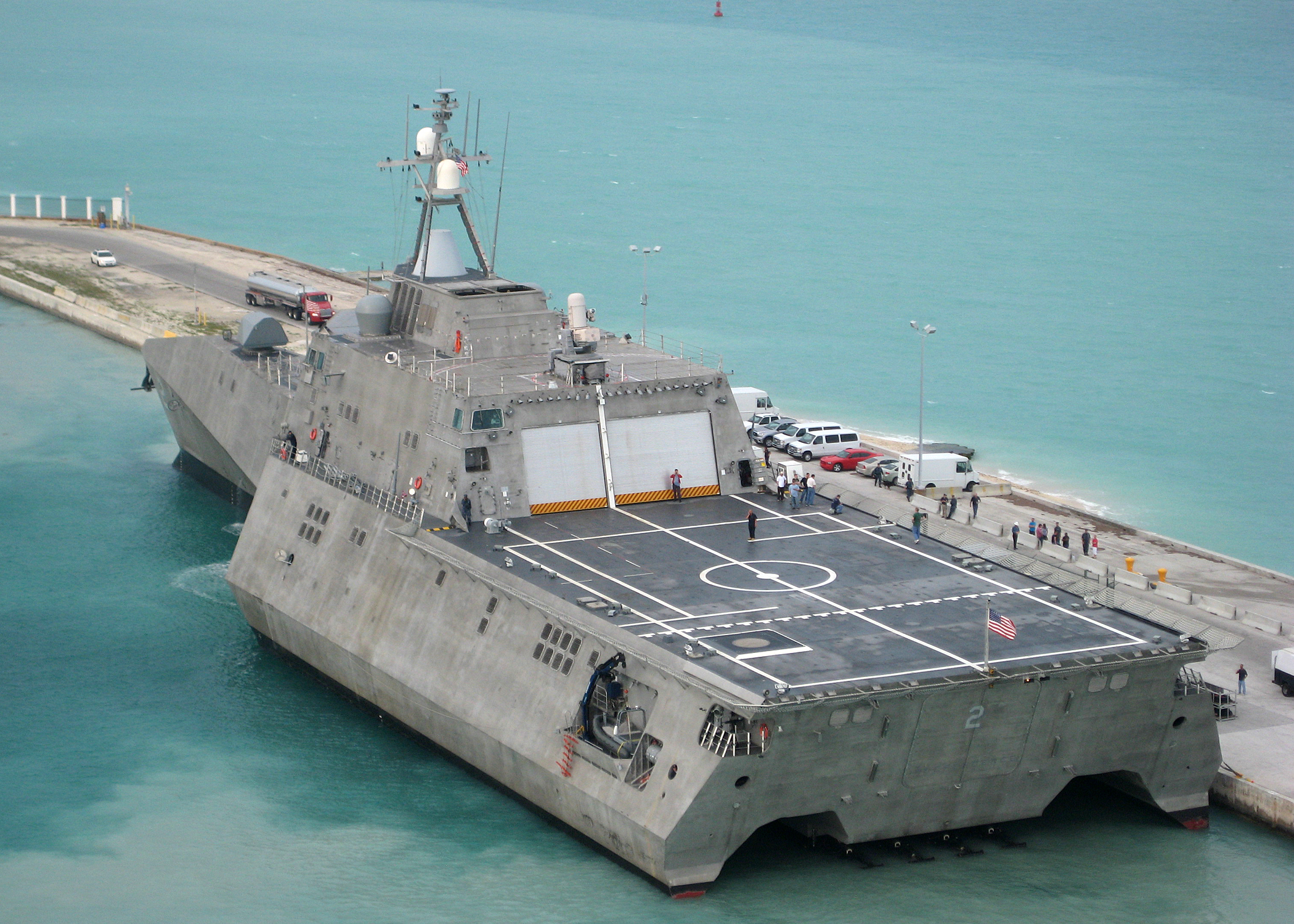 KEY WEST, Fla. (March 29, 2010) The Navy's newest littoral combat ship USS Independence (LCS 2) arrives at Mole Pier at Naval Air Station Key West. Independence is on the way to Norfolk, Va., for commencement of initial testing and evaluation of the aluminum vessel before sailing to its homeport in San Diego. Independence is a fast, agile, mission-focused ship specifically designed to defeat "anti-access" threats in shallow, coastal water regions, including surface craft, diesel submarines and mines. (U.S. Navy photo by Naval Air Crewman 2nd Class Nicholas Kontodiakos/Released)